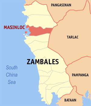 Map of Zambales showing the location of Masinloc